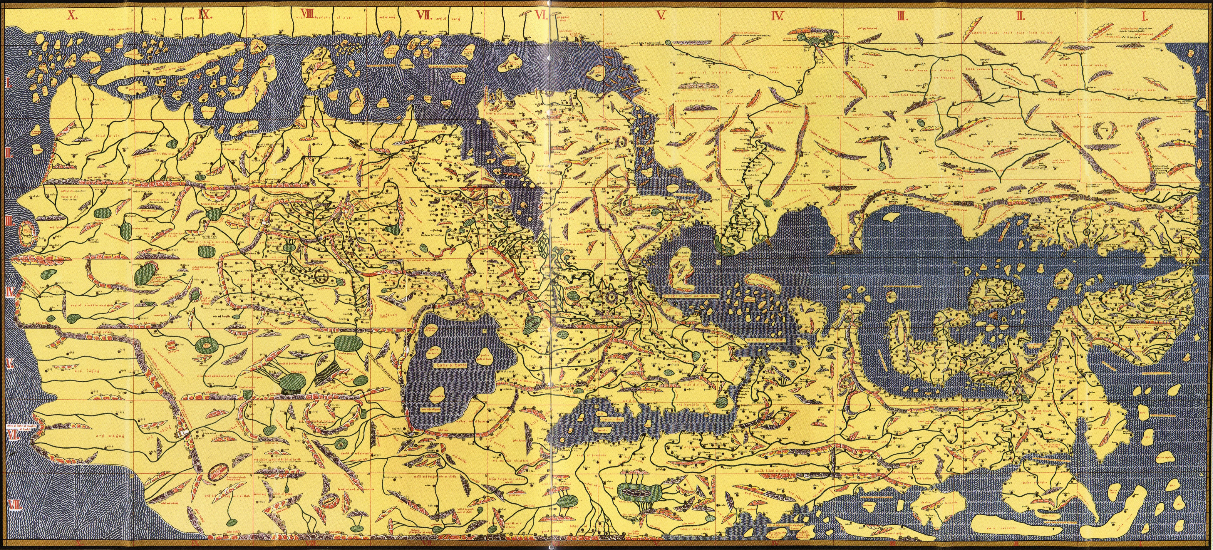 Copy of Al Idrisi Tabula Rogeriana with arabic names translitterated into the roman alphabet.